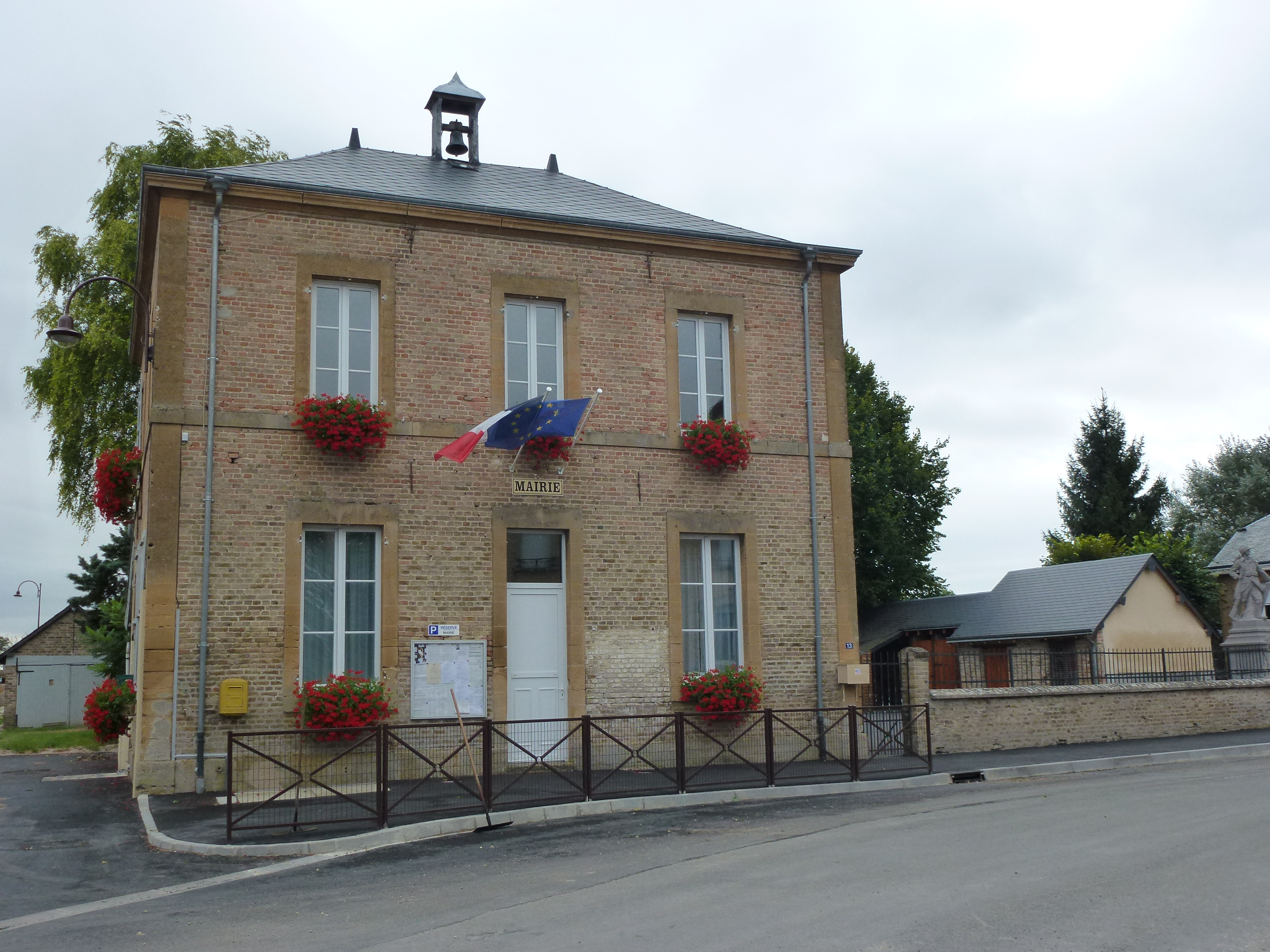 Coucy (Ardennes) mairie